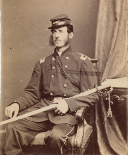 Photograph of then Lieutenant Colonel Lloyd Aspinwall during the U.S. Civil War.